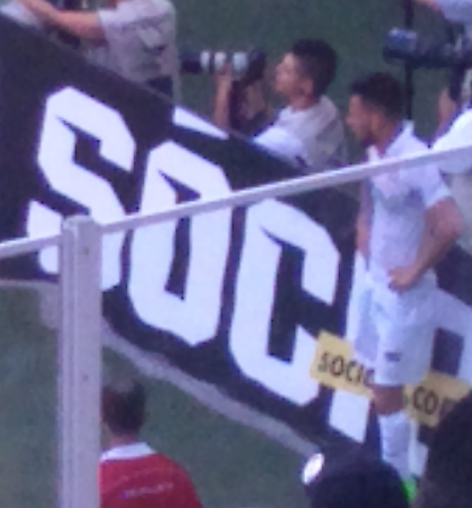 Lucas Lima playing for Santos against São Bernardo on 30 January 2016, at the Vila Belmiro.